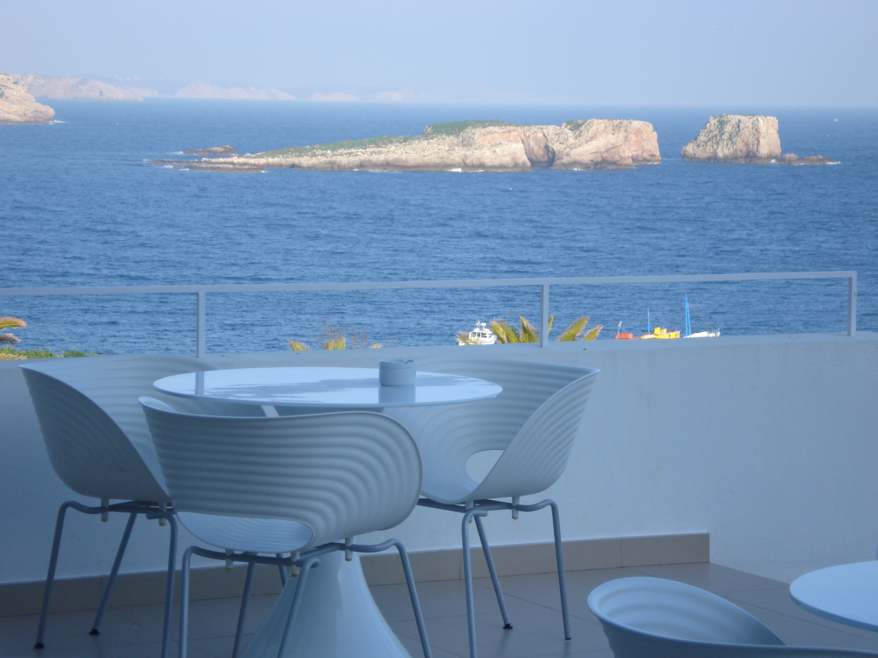 View from the Memmo Baleeira Hotel coffee Shop.. Just above the Baleeira Harbour, overlooking the Ilhotes do Martinhal and the beautiful South coast line were the sun rises find more in